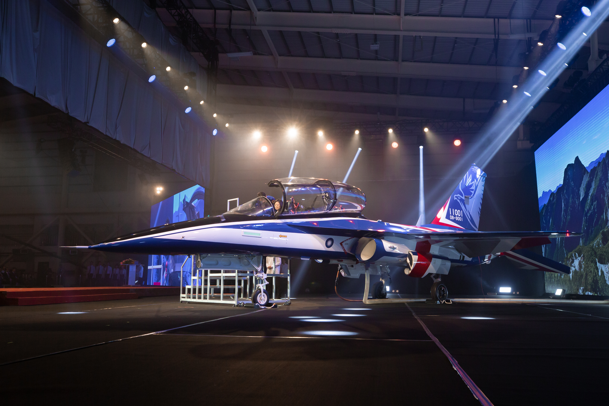 Official Photo by Mori / Office of the President